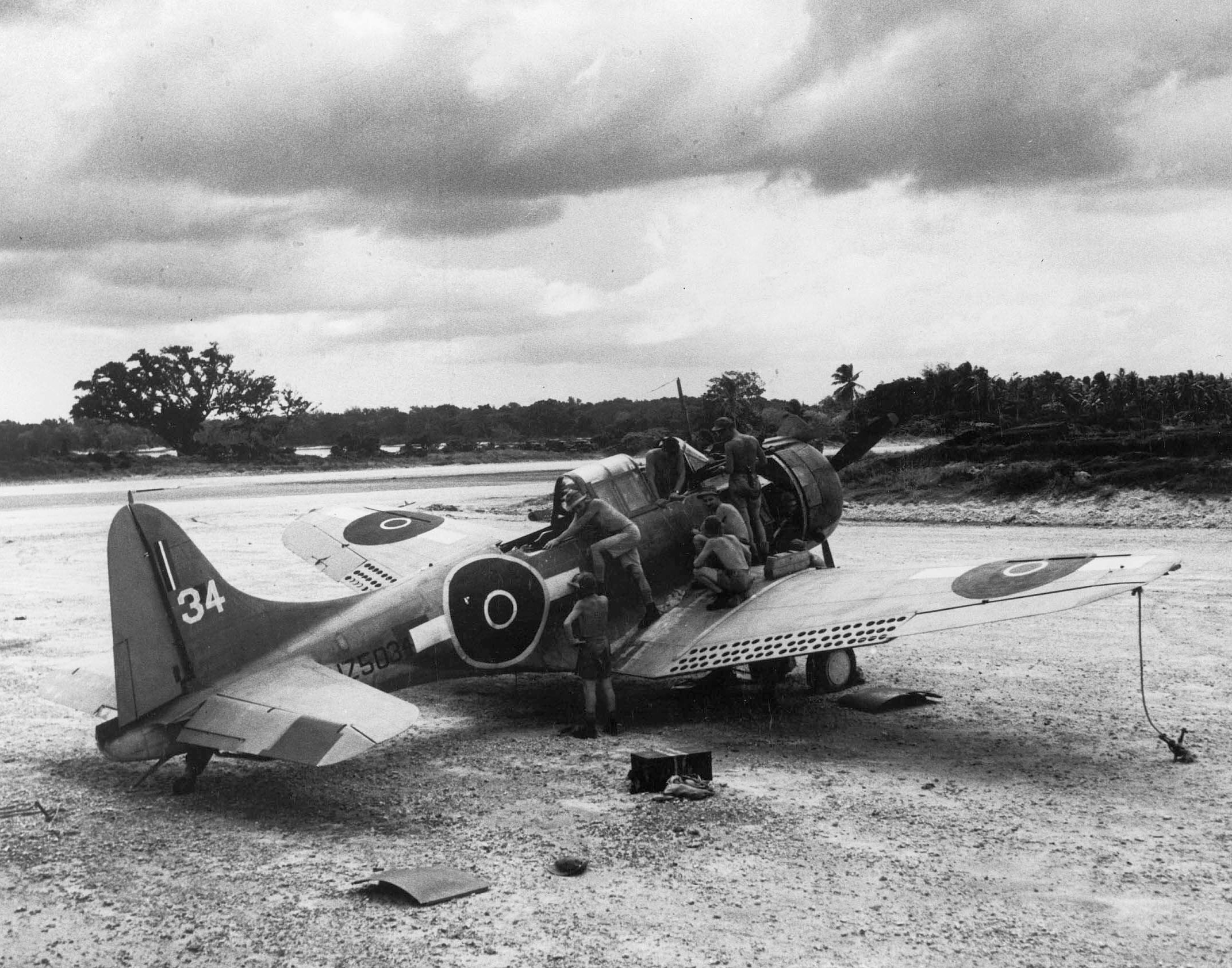 A Douglas SBD-4 Dauntless (BuNo 06766, RNZAF serial NZ5034) assigned to the Royal New Zealand Air Force receives the attention of ground personnel on Espiritu Santo, in 1944. This aircraft was one of 27 SBD-4s obtained by the RNZAF and operated in the Solomon Islands by No. 25 Squadron RNZAF in 1943/44 until being replaced by Vought F4U-1 Corsair fighters. The SBD-4 BuNo 06766 (c/n 1611) was returned to the U.S. Marine Corps in March 1944.